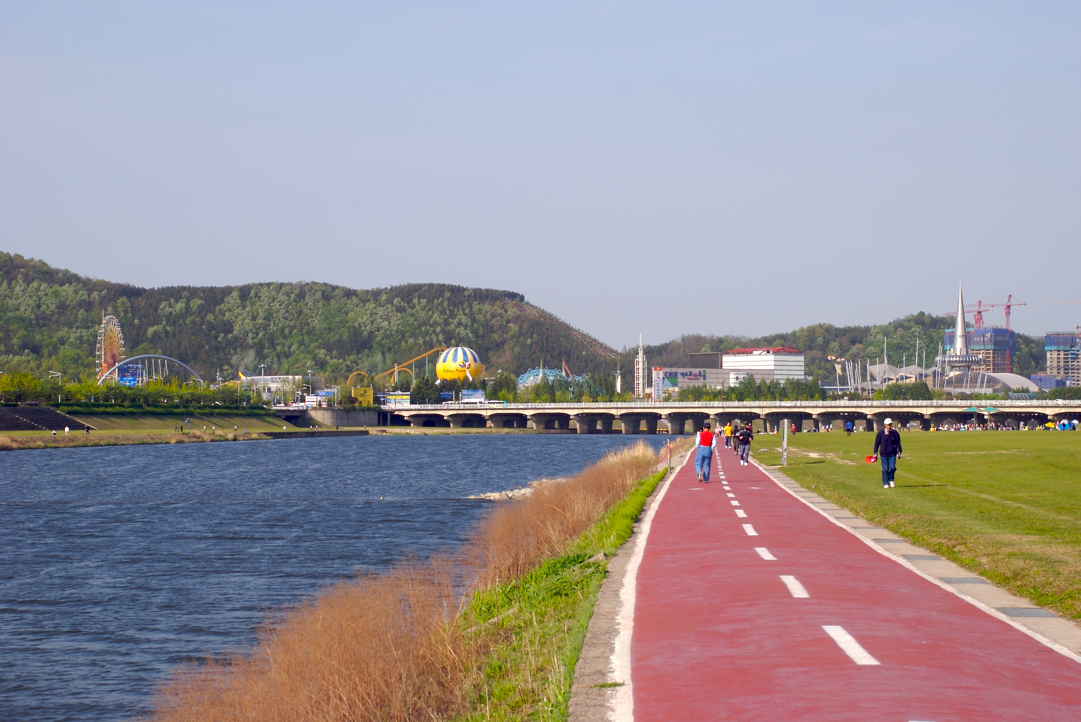 Photograph of the hiking path along Gapcheon in Daejeon, South Korea. The shores along Gapcheon is a popular place for recreational activities. The Daedeok Bridge and the Expo Science Park can be seen in the background.